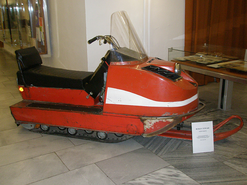 Snowmobile Buran TZM 640, produced in Soviet Russia in 1982, used in 1980's by Czechoslovak Frontier-guard, exhibited in Czech Police Museum, Prague